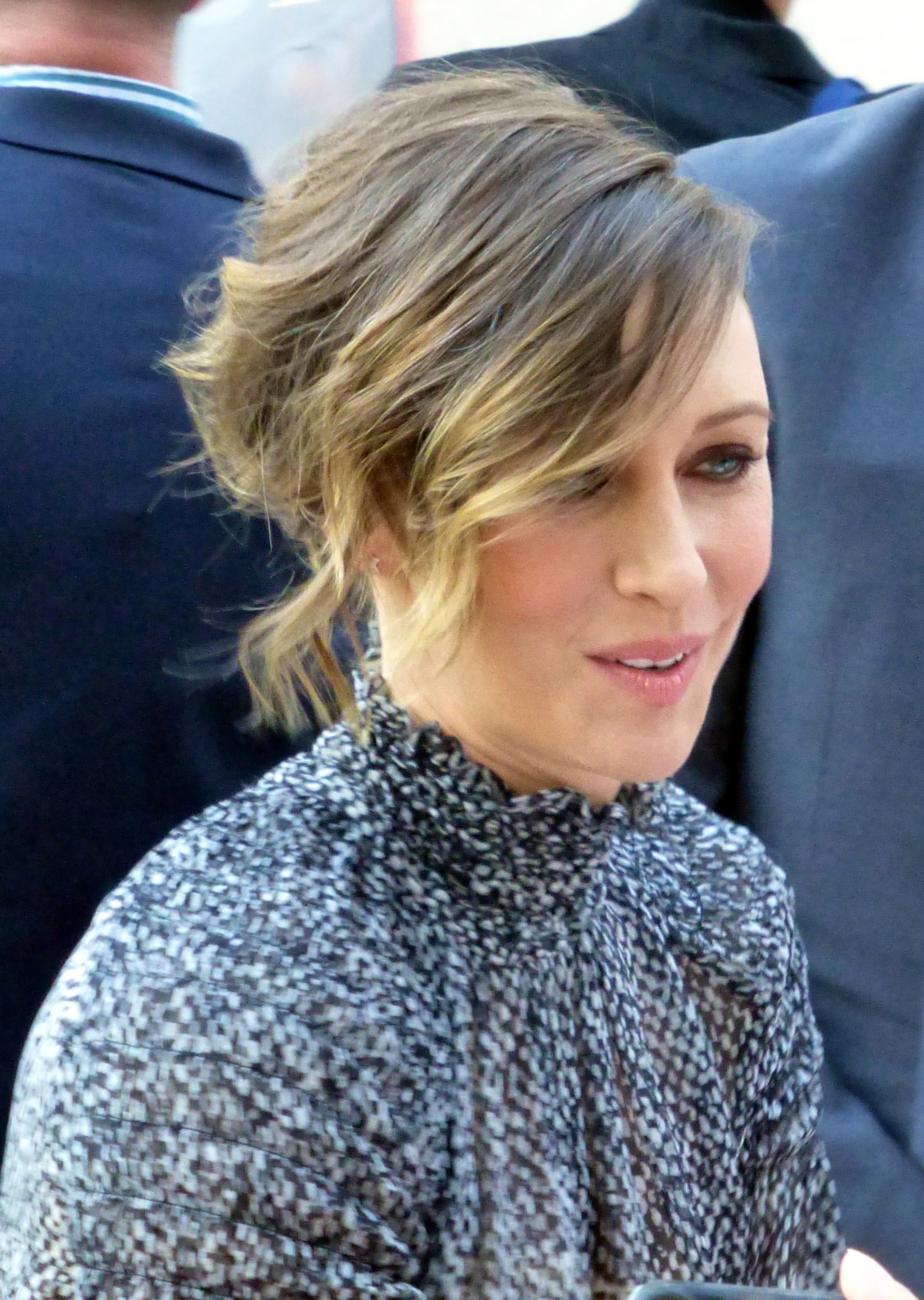 Vera Farmiga at the premiere of The Judge, Toronto Film Festival 2014